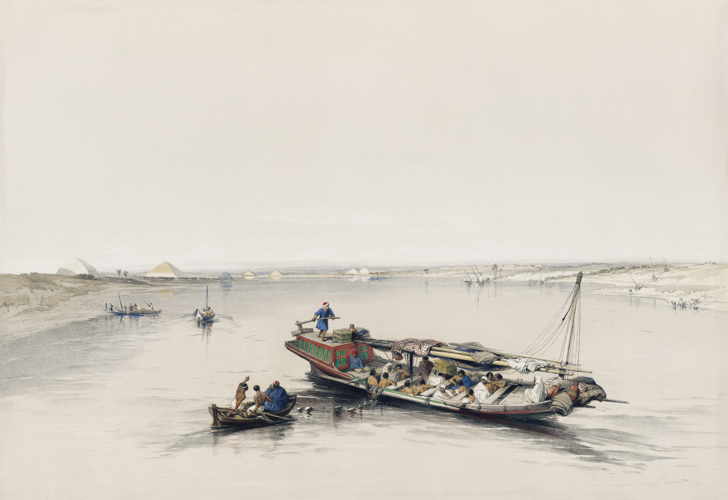 View on the Nile looking towards the pyramids of Dashour and Saccara illustration by David Roberts (1796-1864).